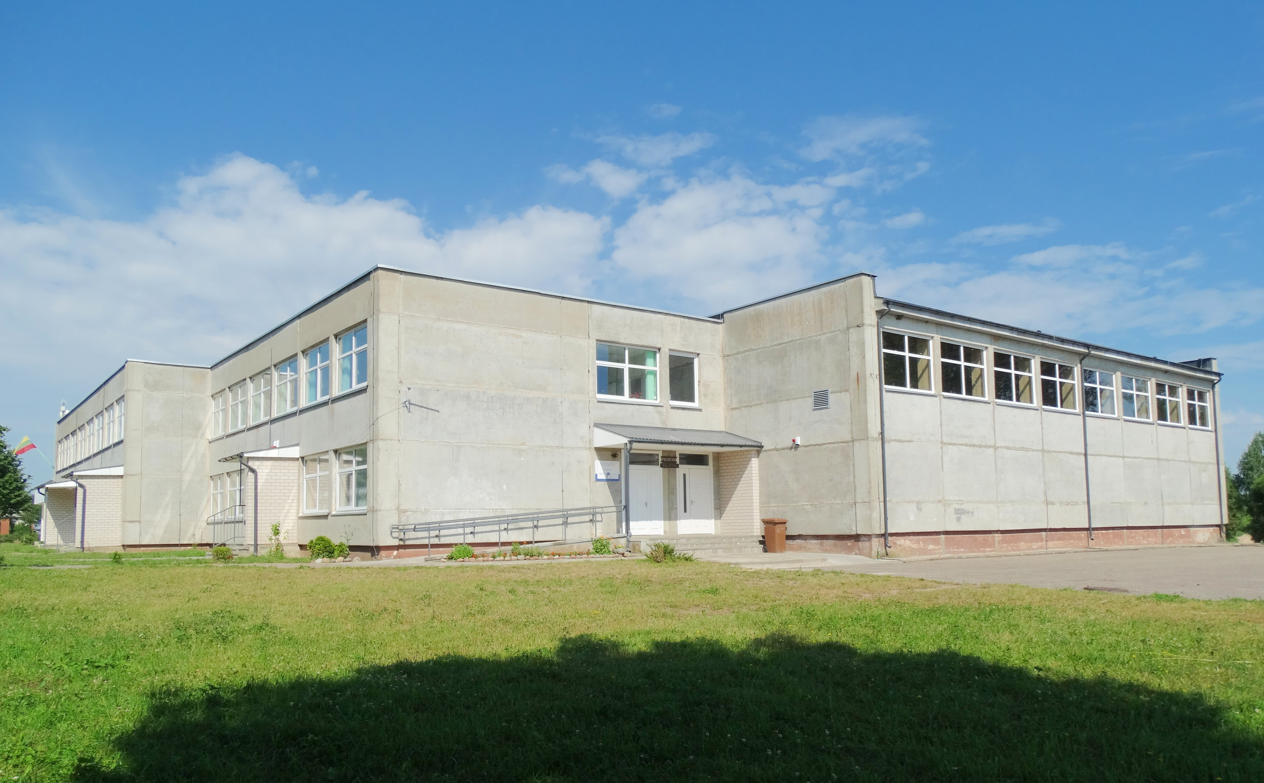 Multifunction centre, Viekšnaliai, Telšiai District, Lithuania